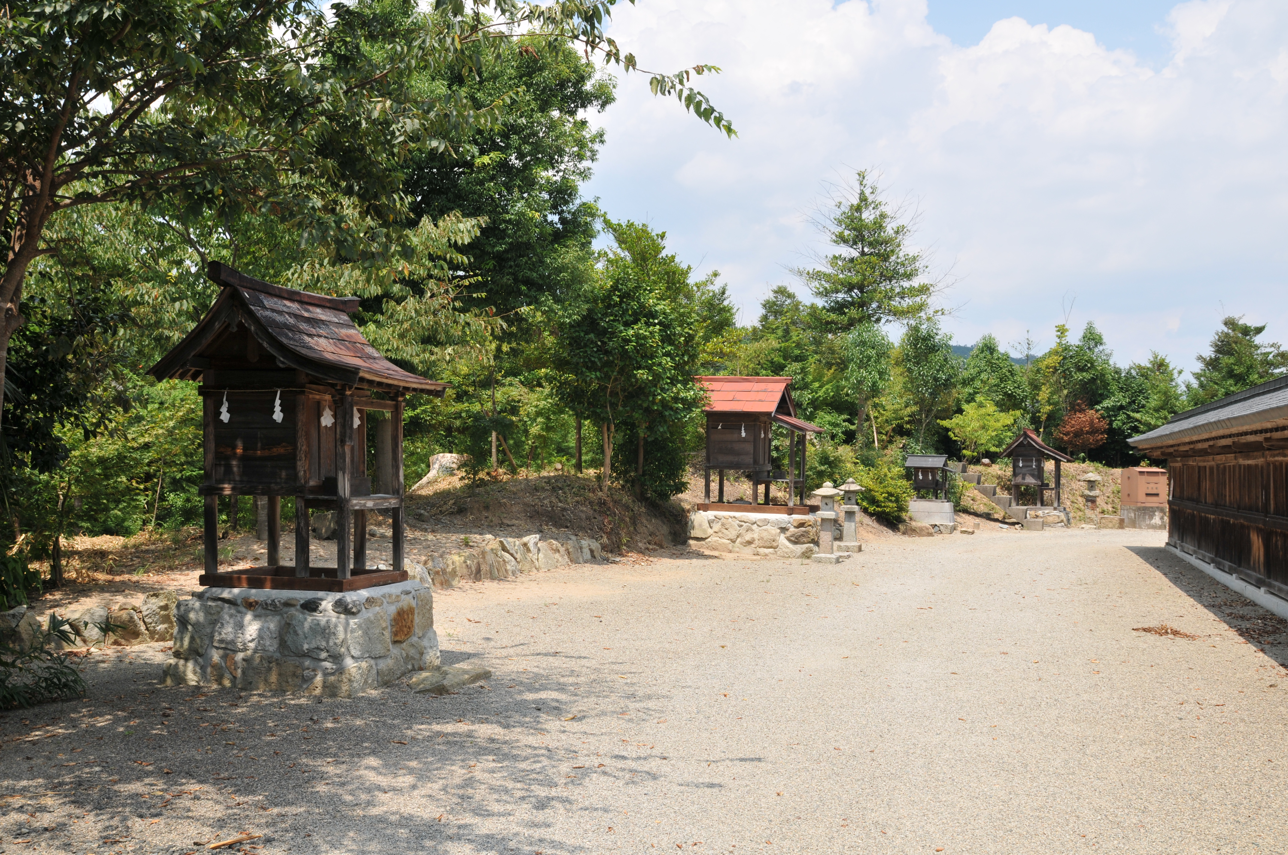 Attached shrines, Sōja